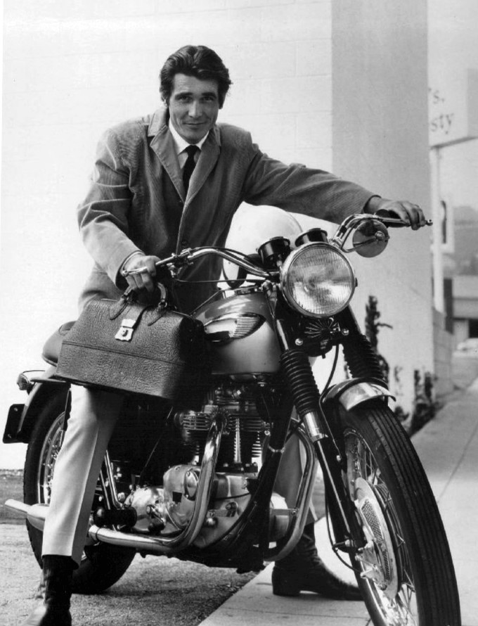 Publicity photo of James Brolin as Dr. Steven Kiley from the premiere of the television program Marcus Welby, M.D..